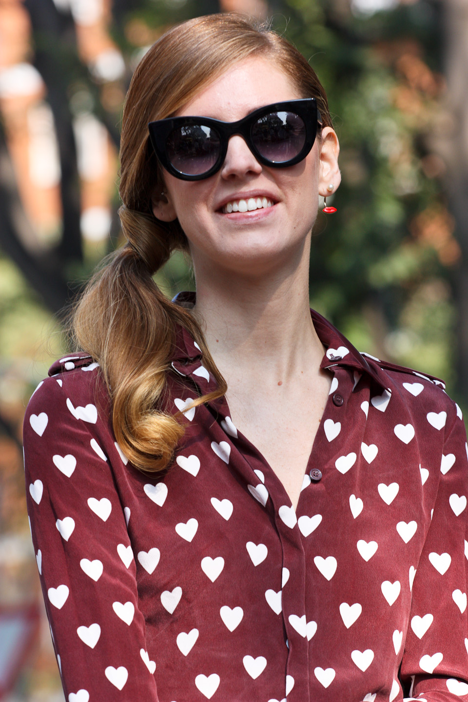 Milan Fashion Week 2013, photos from Giorgio Armani Fashion show